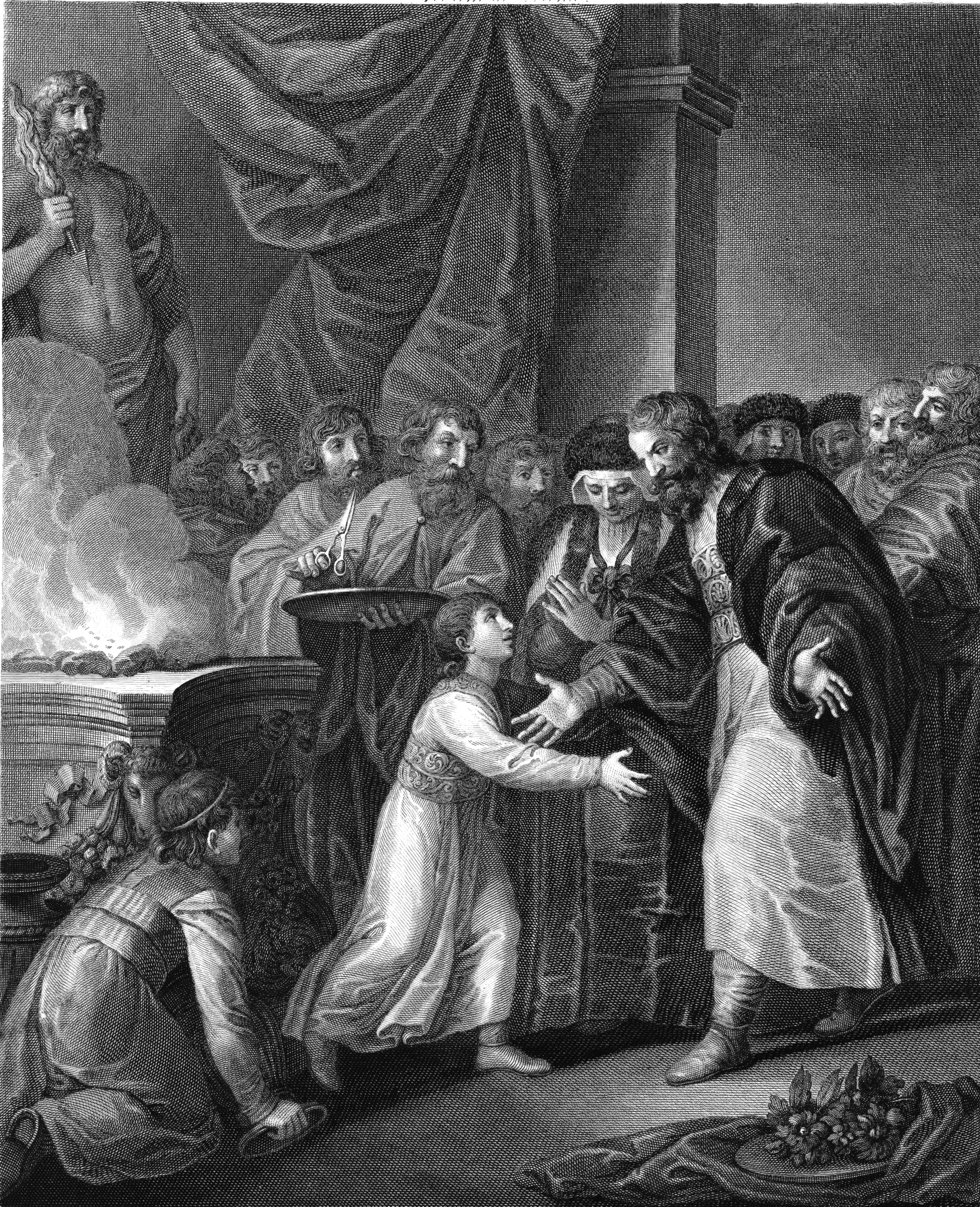 Shearing of Mieszko I of Poland